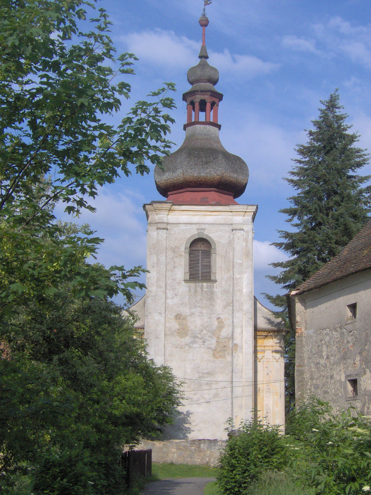 St Wenceslas Church in Kadov, Strakonice District, Czech republic